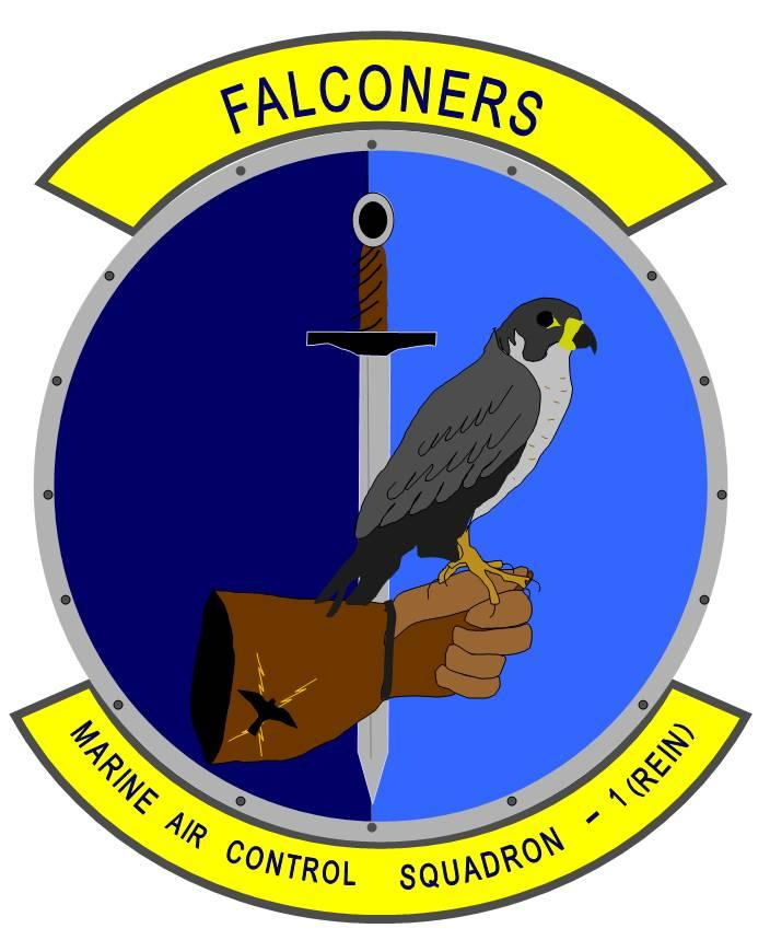 Unit logo for Marine Air Control Squadron 1